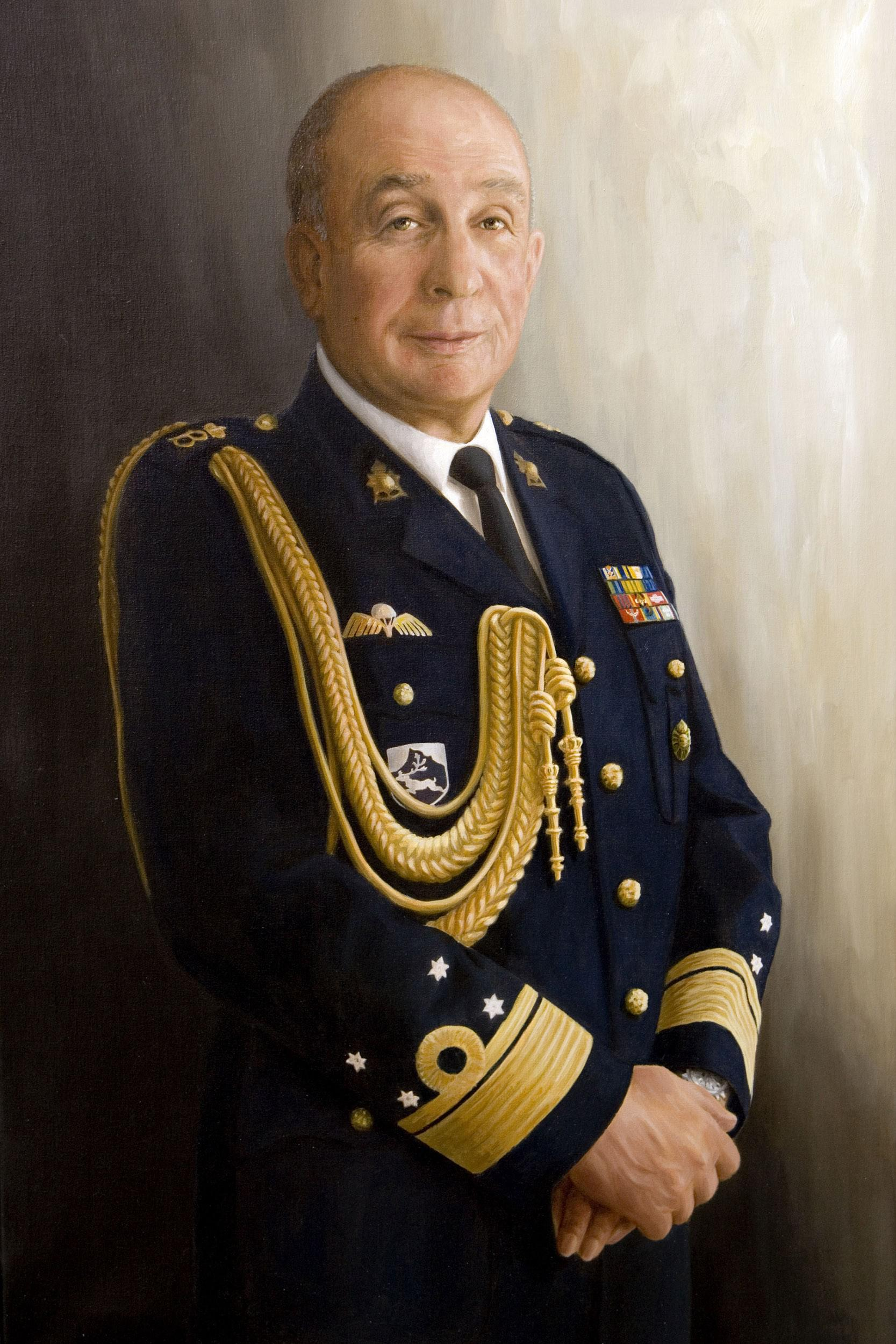 General Henk van den Breemen of the Netherlands